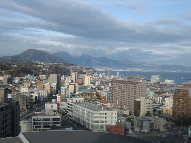 Ōita seen from Takasago. Ōita harbor in front right, behind that the Beppu Bay. Motorway 10 in front left, behind Takasaki Yama.